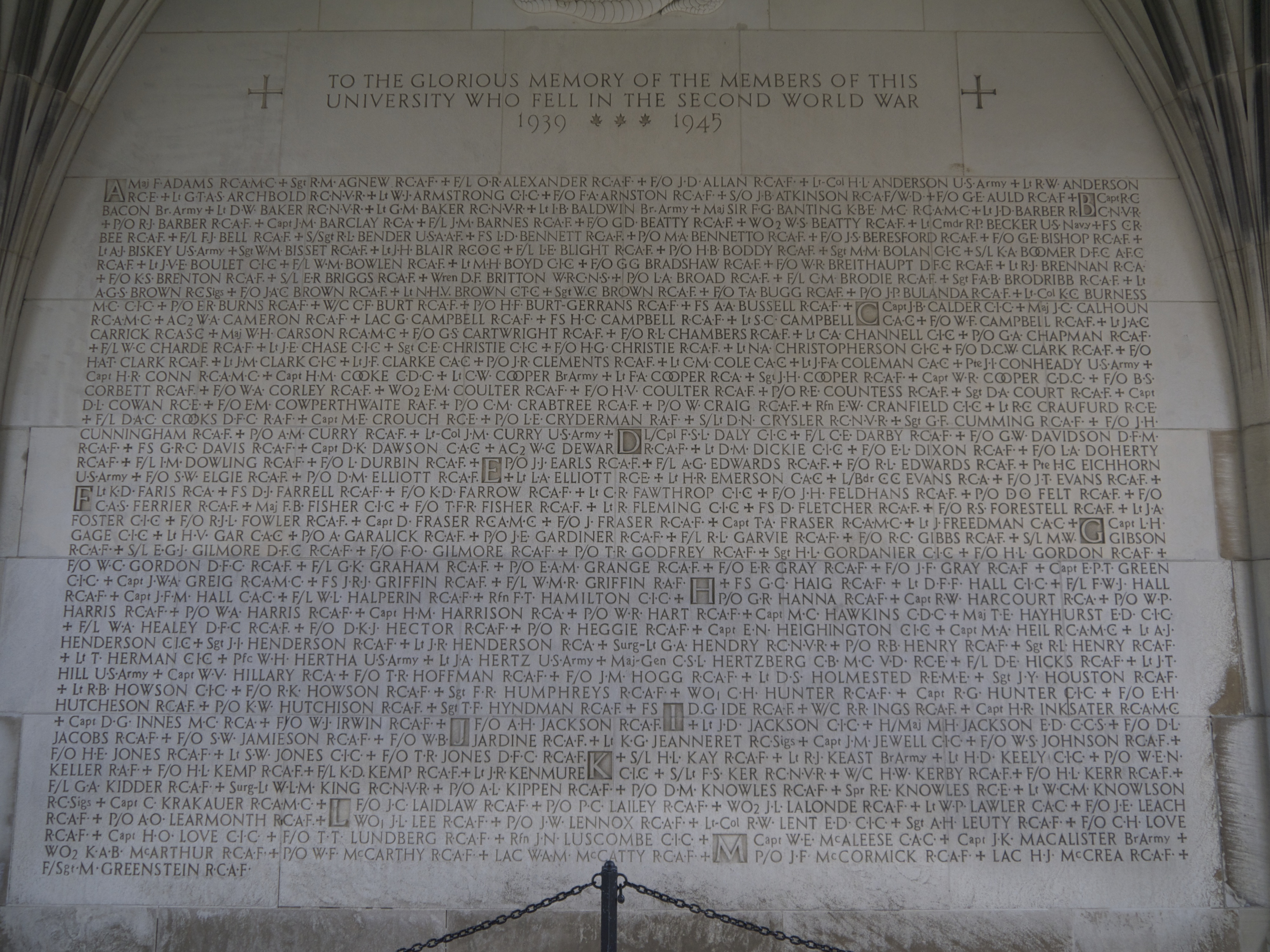 Inscription and name panel for the Soldier's Tower at the University of Toronto. This is panel 1 of the 1939-1945 list. Inscription: To the glorious memory of the members of this University who fell in the Second World War 1939–1945.